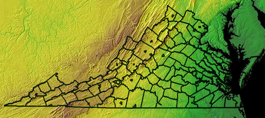 Virginia - topographic map